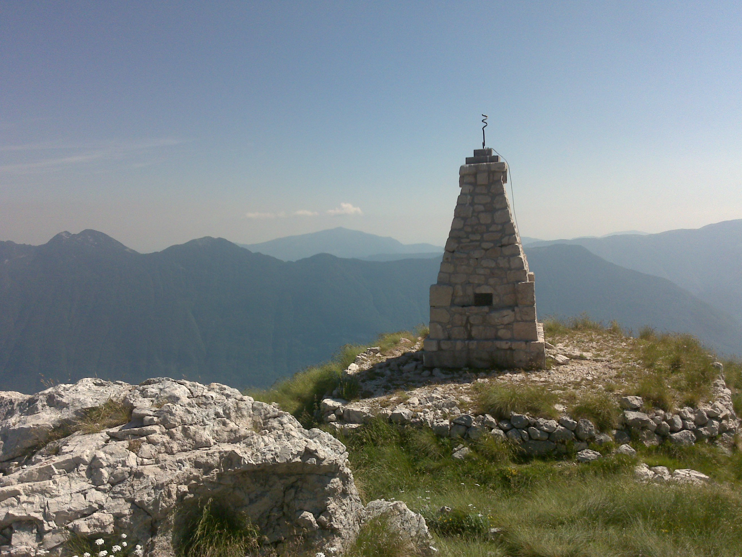 Mont Kukla -memorial to the victims of Battalion Bassano